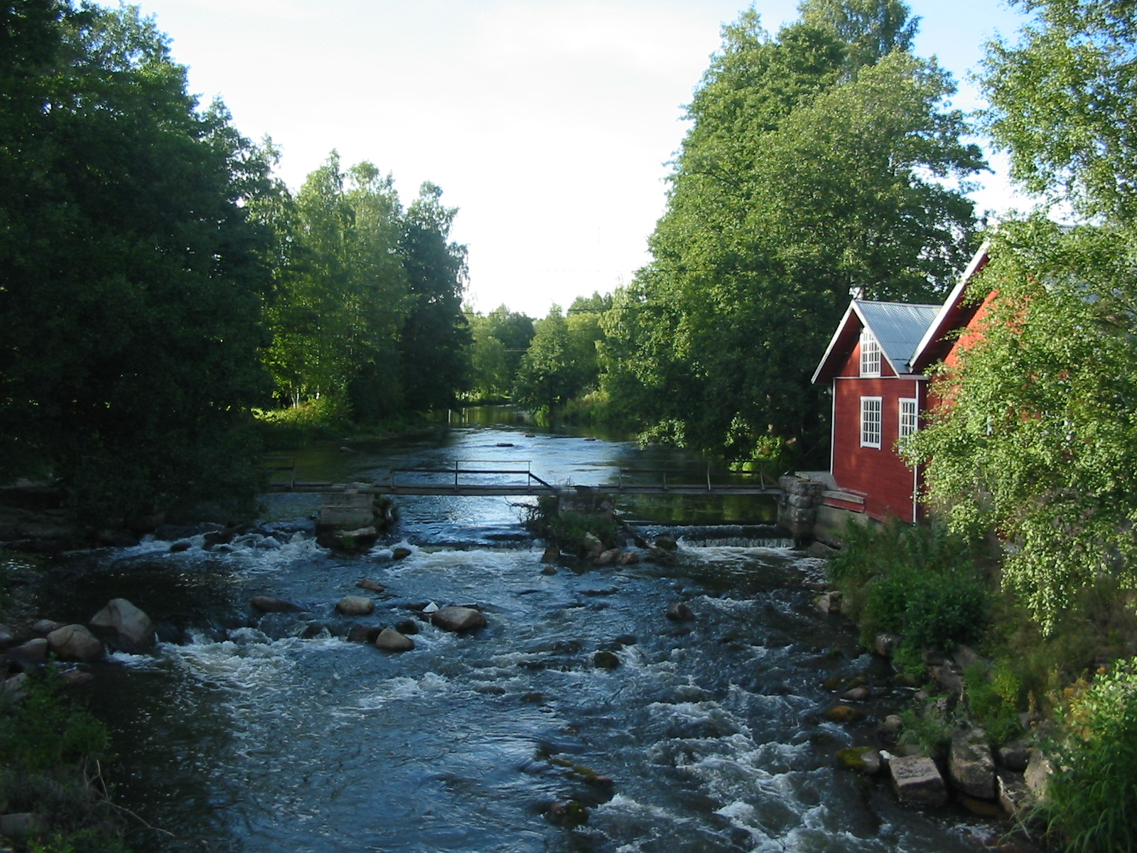 Faltunkoski rapids in river Eurajoki in Eurajoki, Finland, seen from the bridge on the road between Eurajoki and Mullila